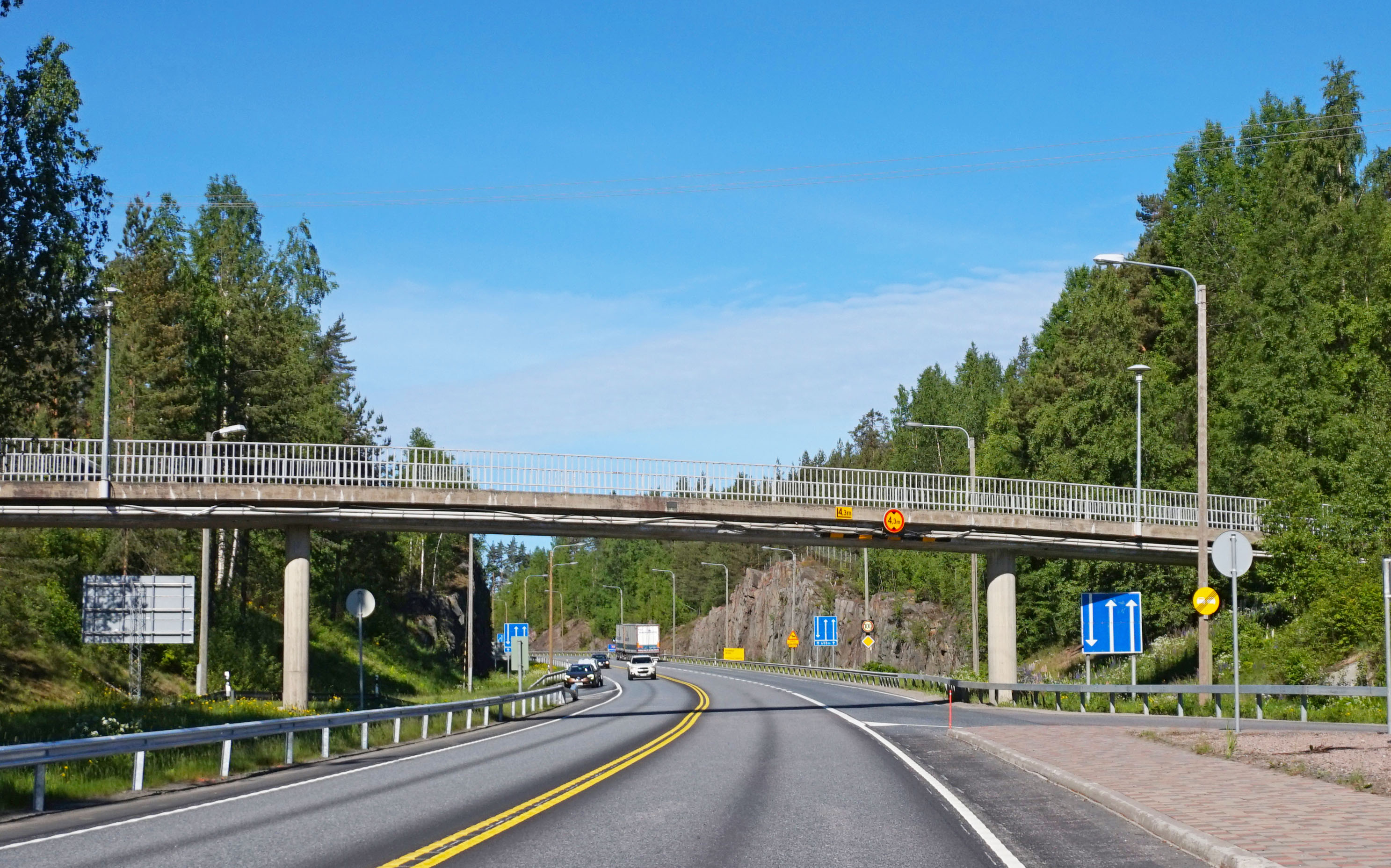 Main road 9 (E63) in Orivesi, Finland.